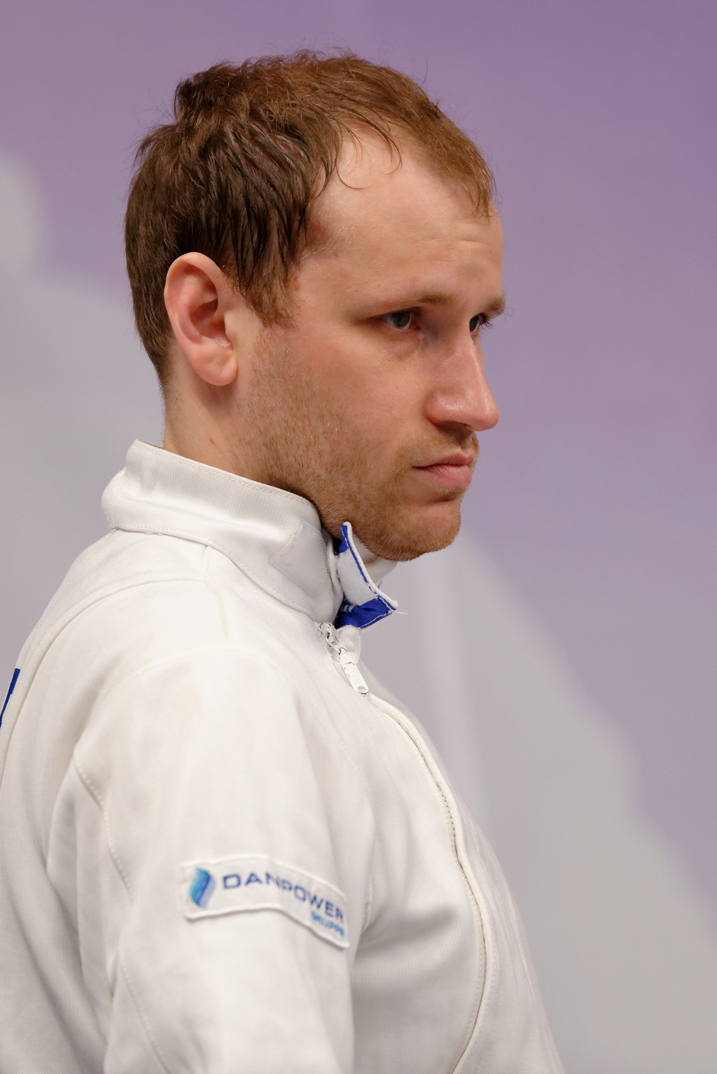 Estonia's Sven Järve in the pools stage at the 2014 Challenge RFF-Trophée Monal, a men's épée World Cup event, on 2 May 2014.